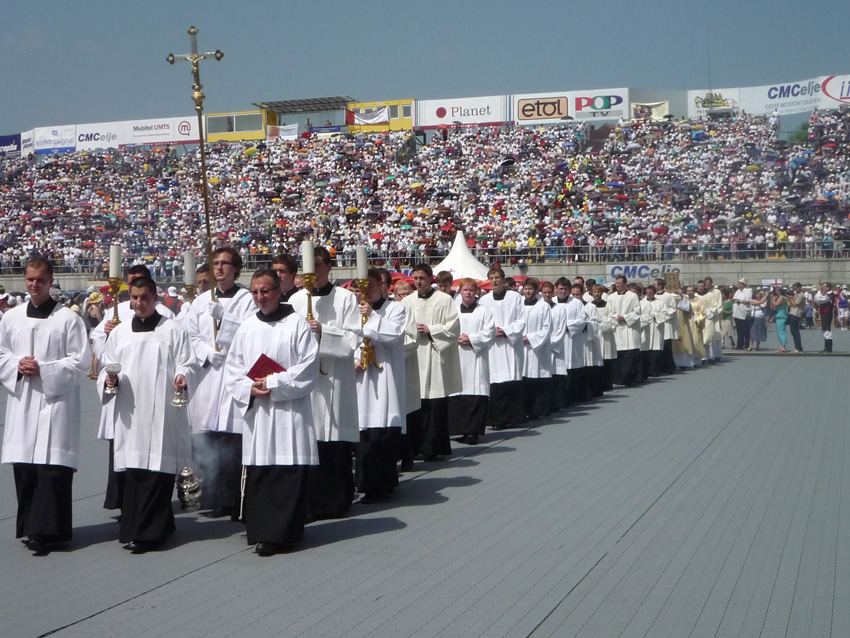 SEK - Slovenian Eucharist Congress 2010 Celje Beatification of Lojze Grozde 10 procession of clerics